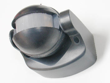 Movement sensor Example